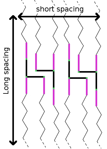 cristal triglycerides packing